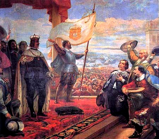 John IV of Portugal being proclaimed king.